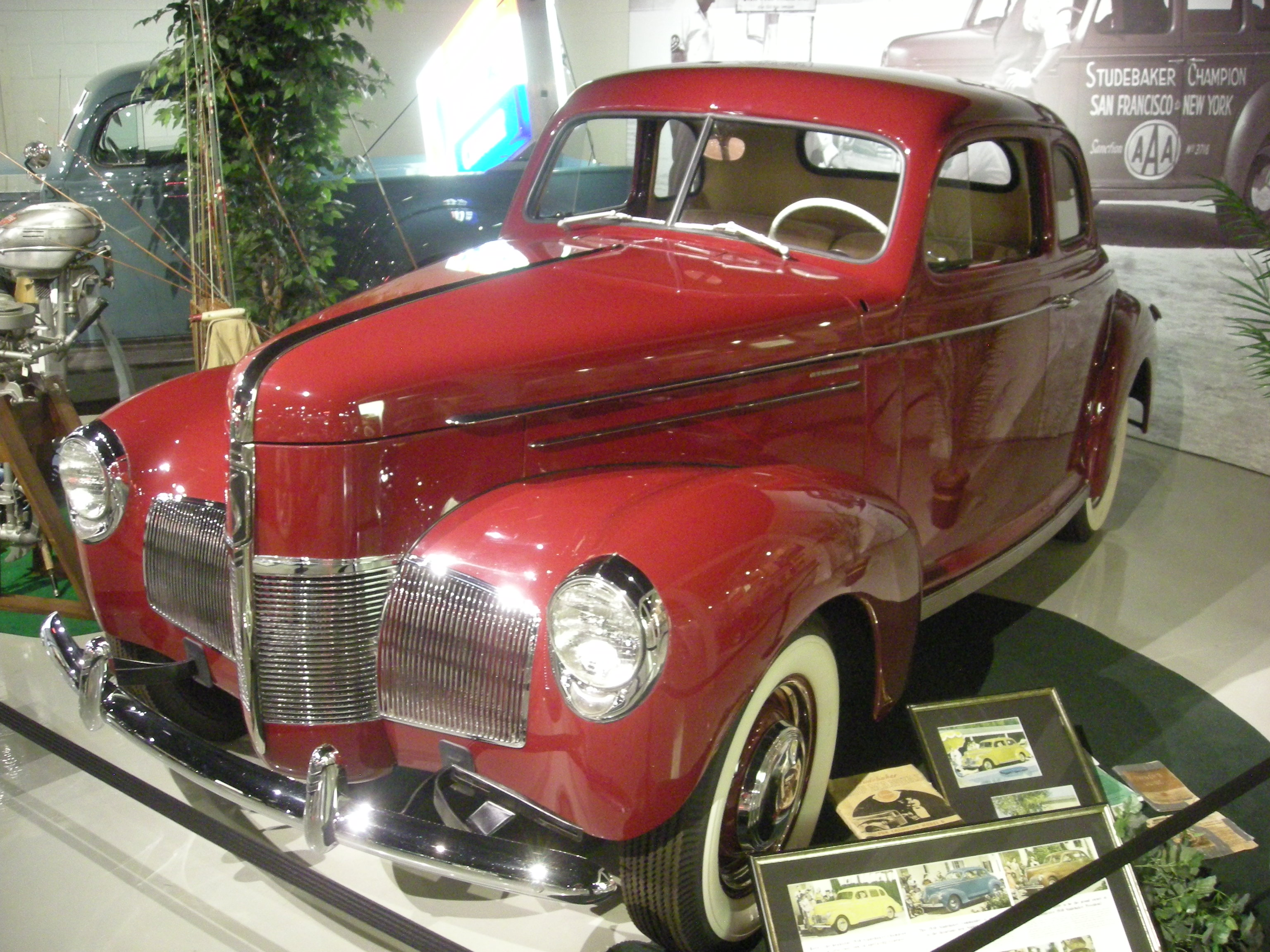 A 1940 Studebaker Champion Coupe at the Studebaker National Museum in South Bend, Indiana (United States).